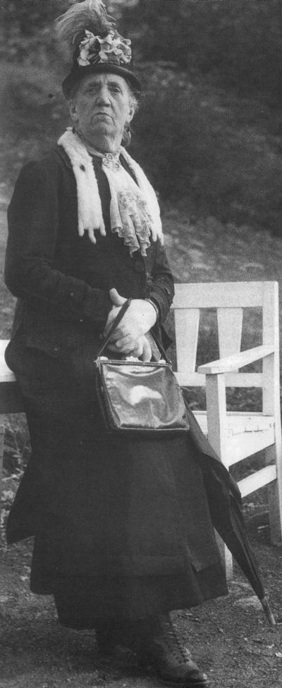 Swedish actor Julia Caesar